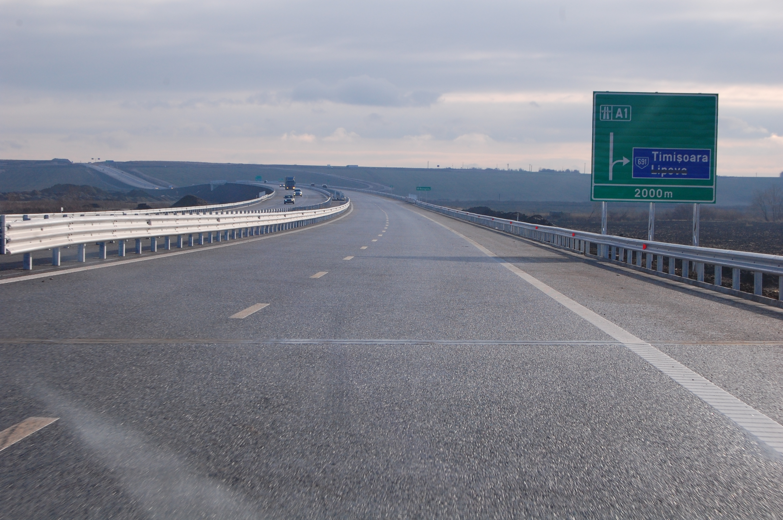 A1 Arad-Timisoara - 2000m before Giarmata interchange